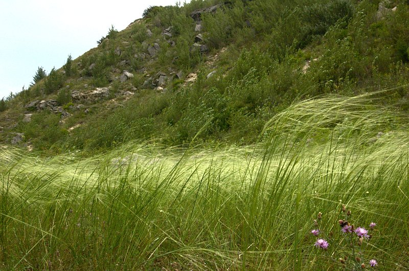 Devínska Kobyla